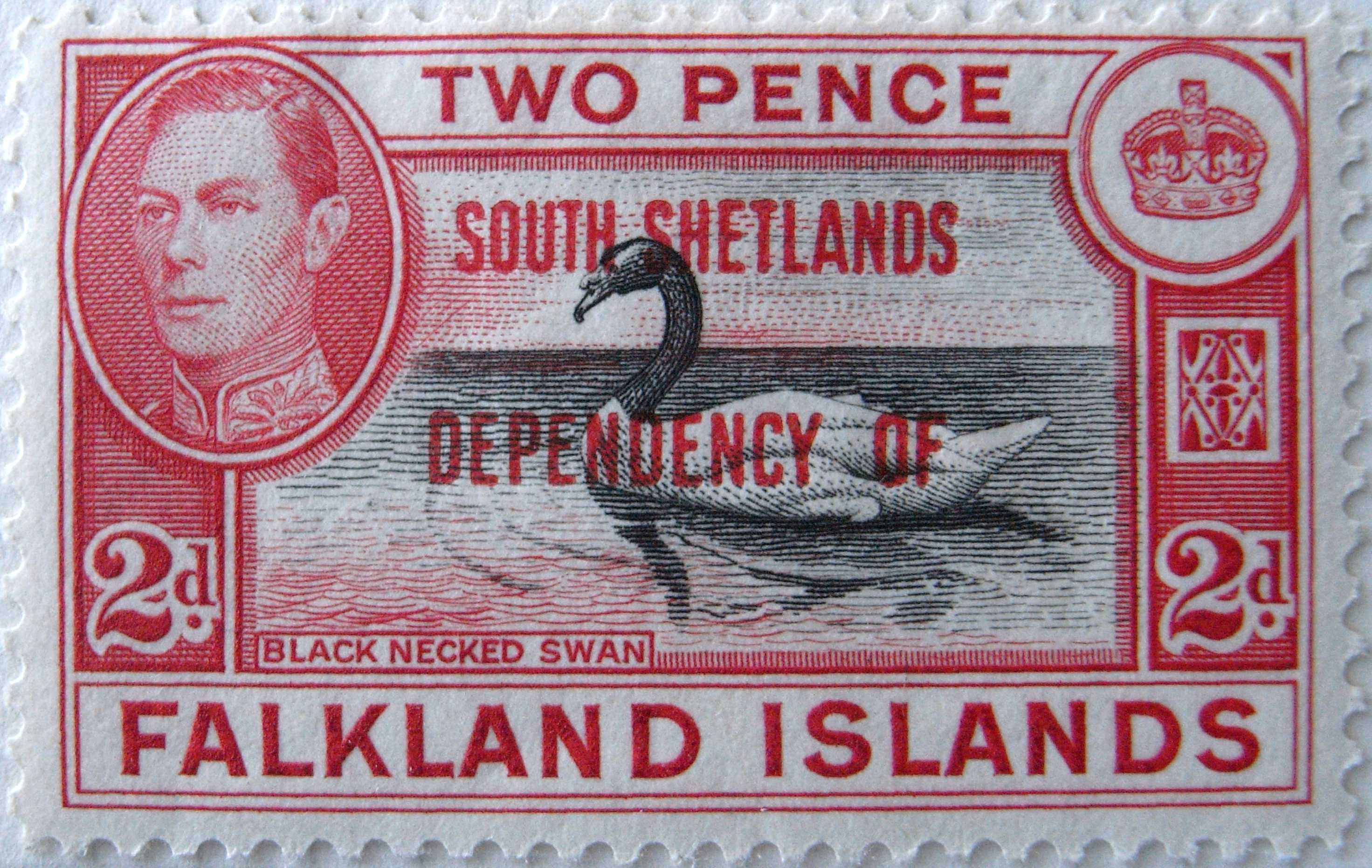 2-Pence stamp of the Falkland Islands, marked with South Shetlands